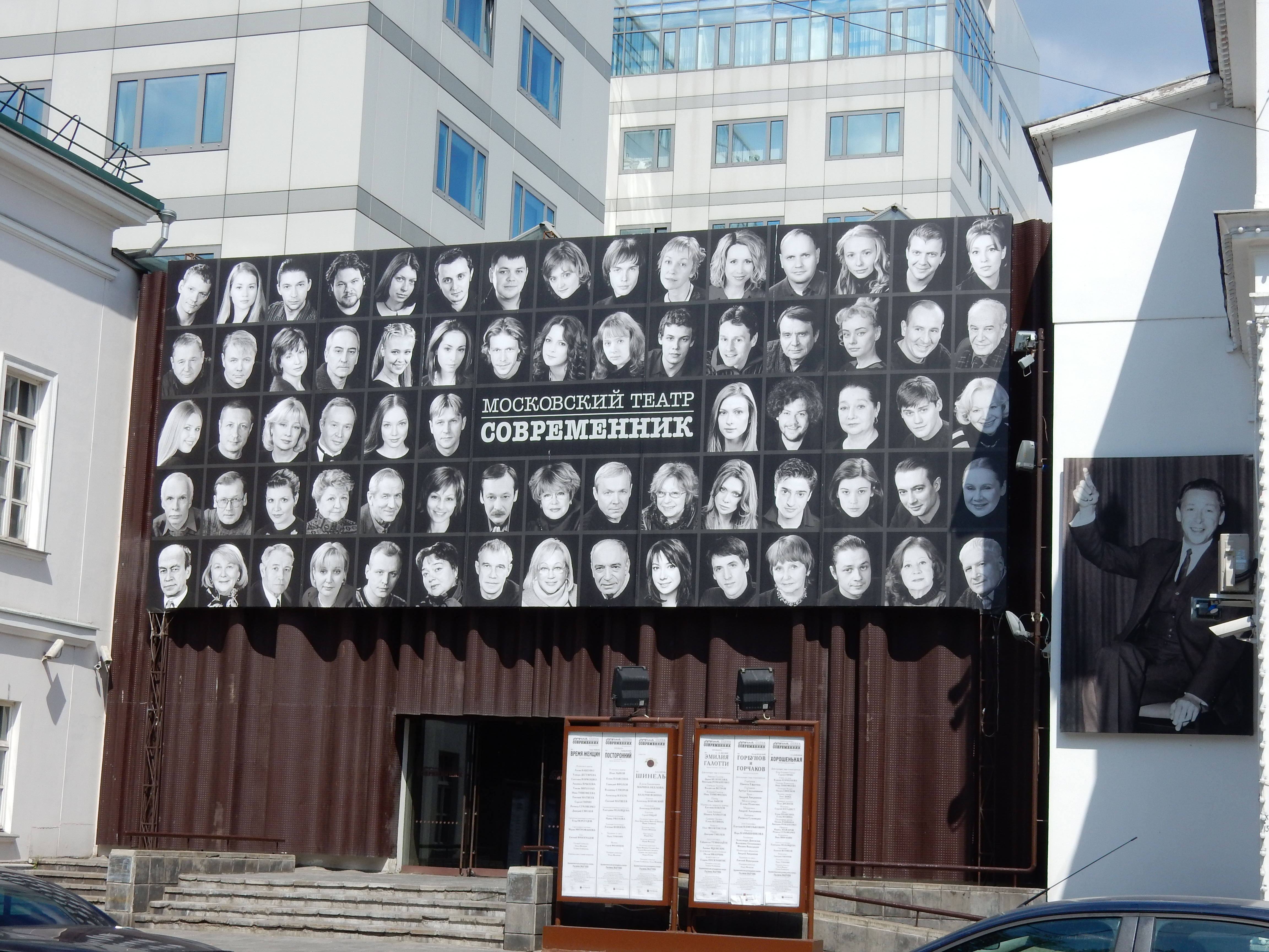 Moscow, Sovremennik theatre. July 2014.